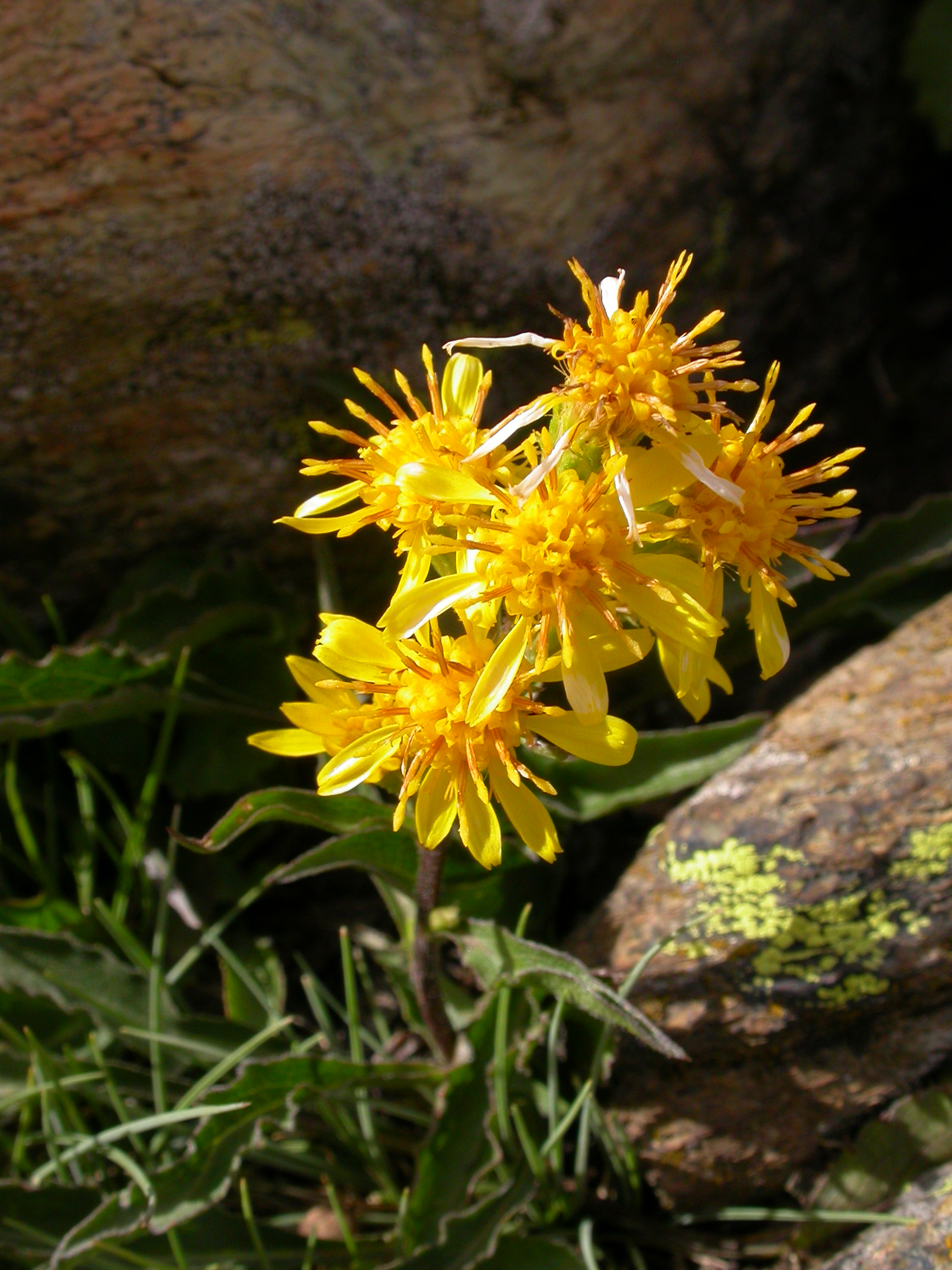 Solidago virgaurea Zermatt, Riffelberg (Kanton Wallis, Switzerland), 2500 m Author: Barbara Studer – own photograph Date: 2.08.06